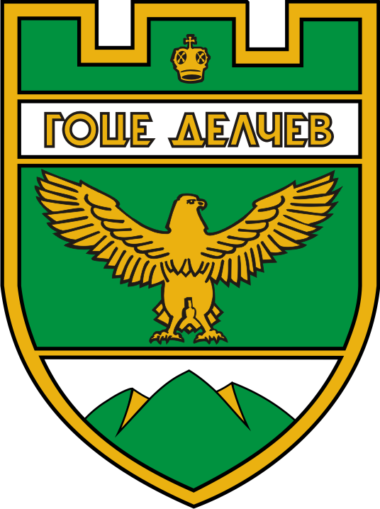 Emblem of town of Gotse Delchev, Bulgaria